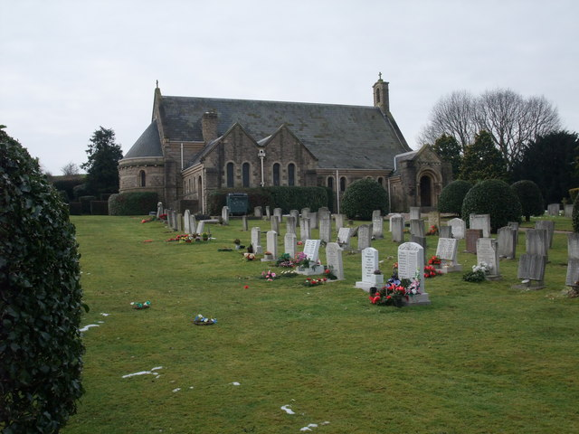 Chapel of St Winifred, Holbeck Listed as a private chapel in , but the notice board calls it a church.